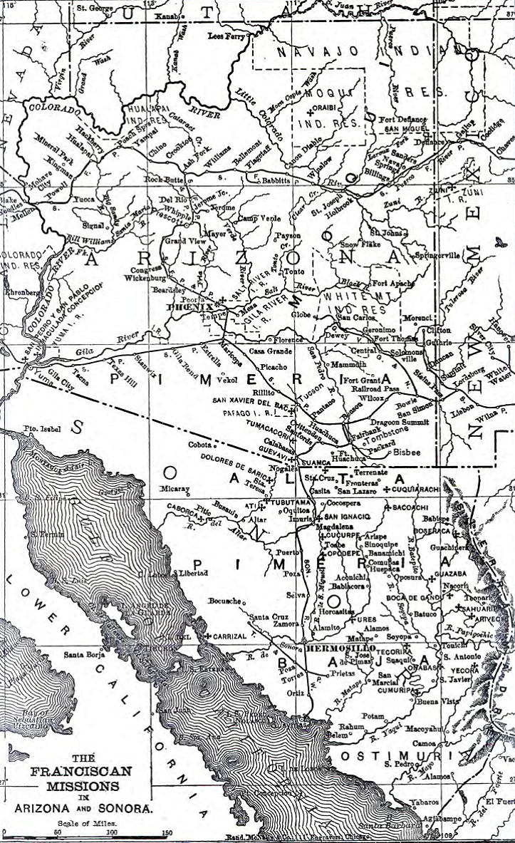 Map of Jesuit colonial Spanish missions in the Sonoran Desert of the Viceroyalty of New Spain, in present day southern Arizona, U.S. and Sonora, Mexico.